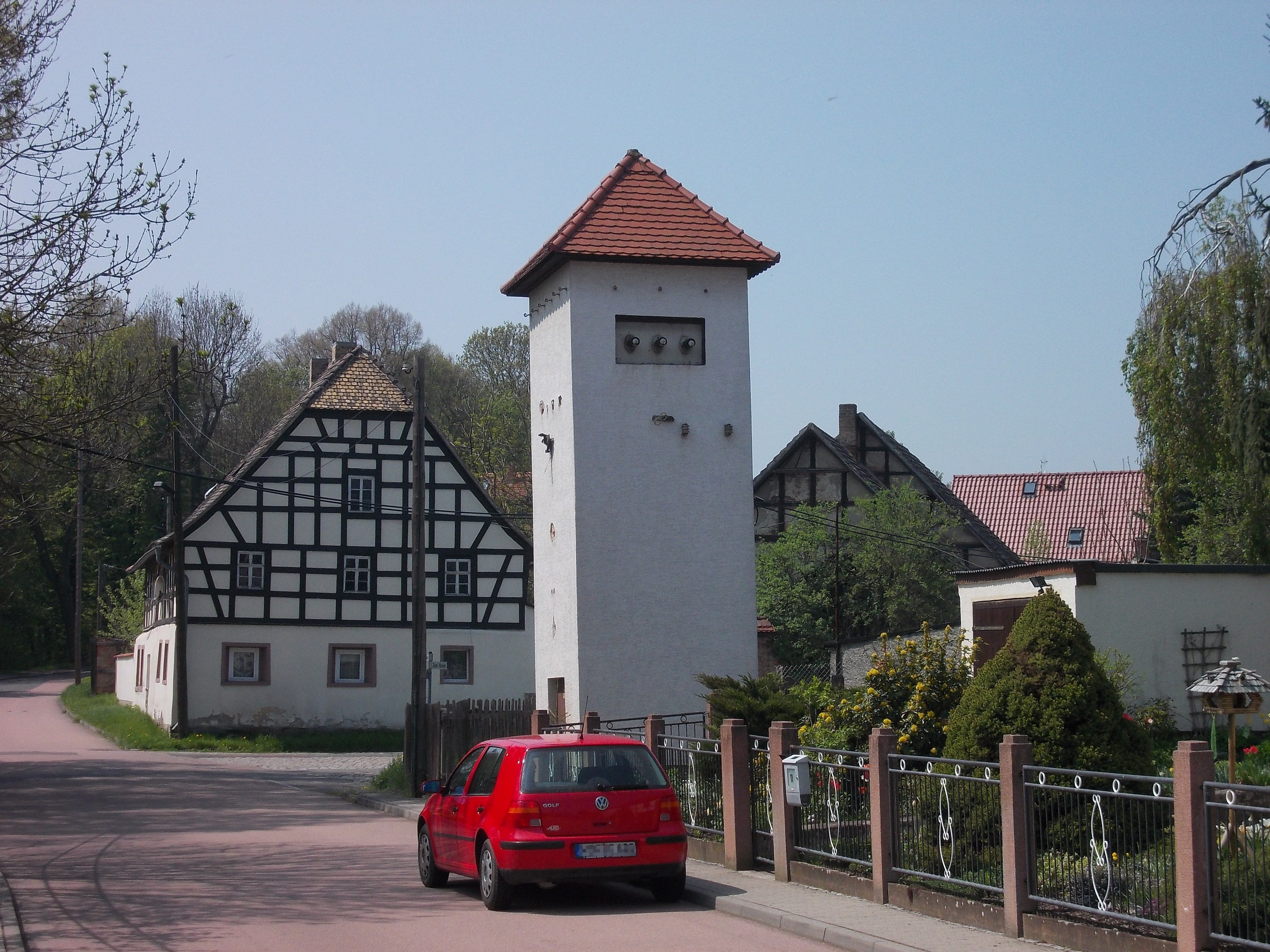 Distribution substation and half-timbered buildings in Rössuln (Hohenmölsen, district: Burgenlandkreis, Saxony-Anhalt)